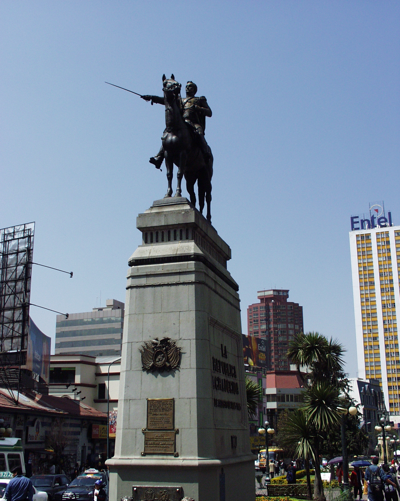 Statue of Simón Bolívar, La Paz, Bolivia.